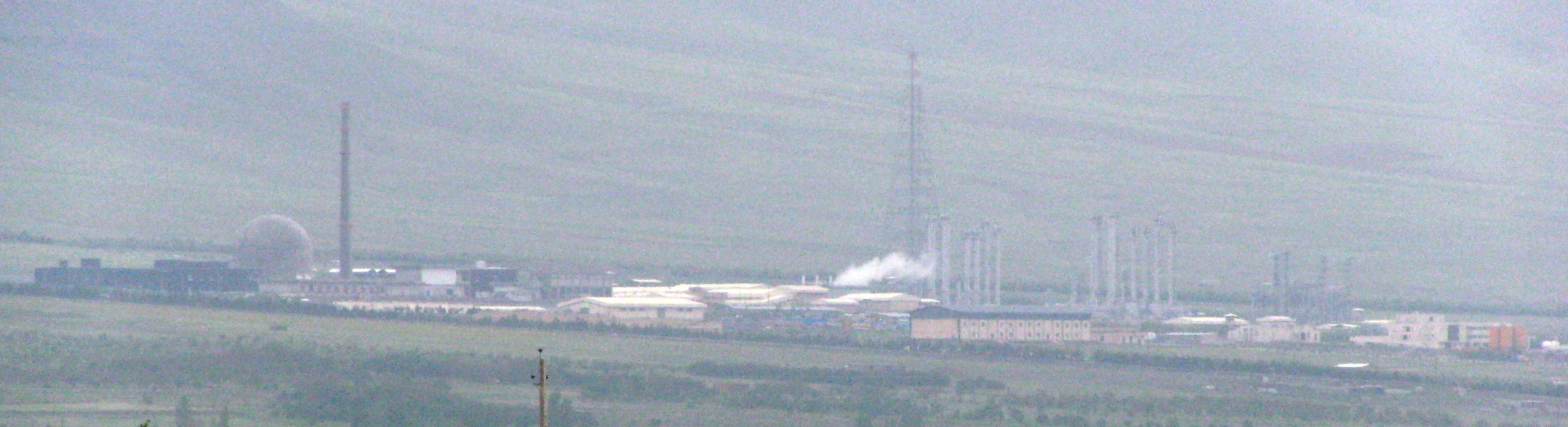 IR40 Heavy Water Nuclear Reactor, khondab, (40 Km far from Arak), Iran.